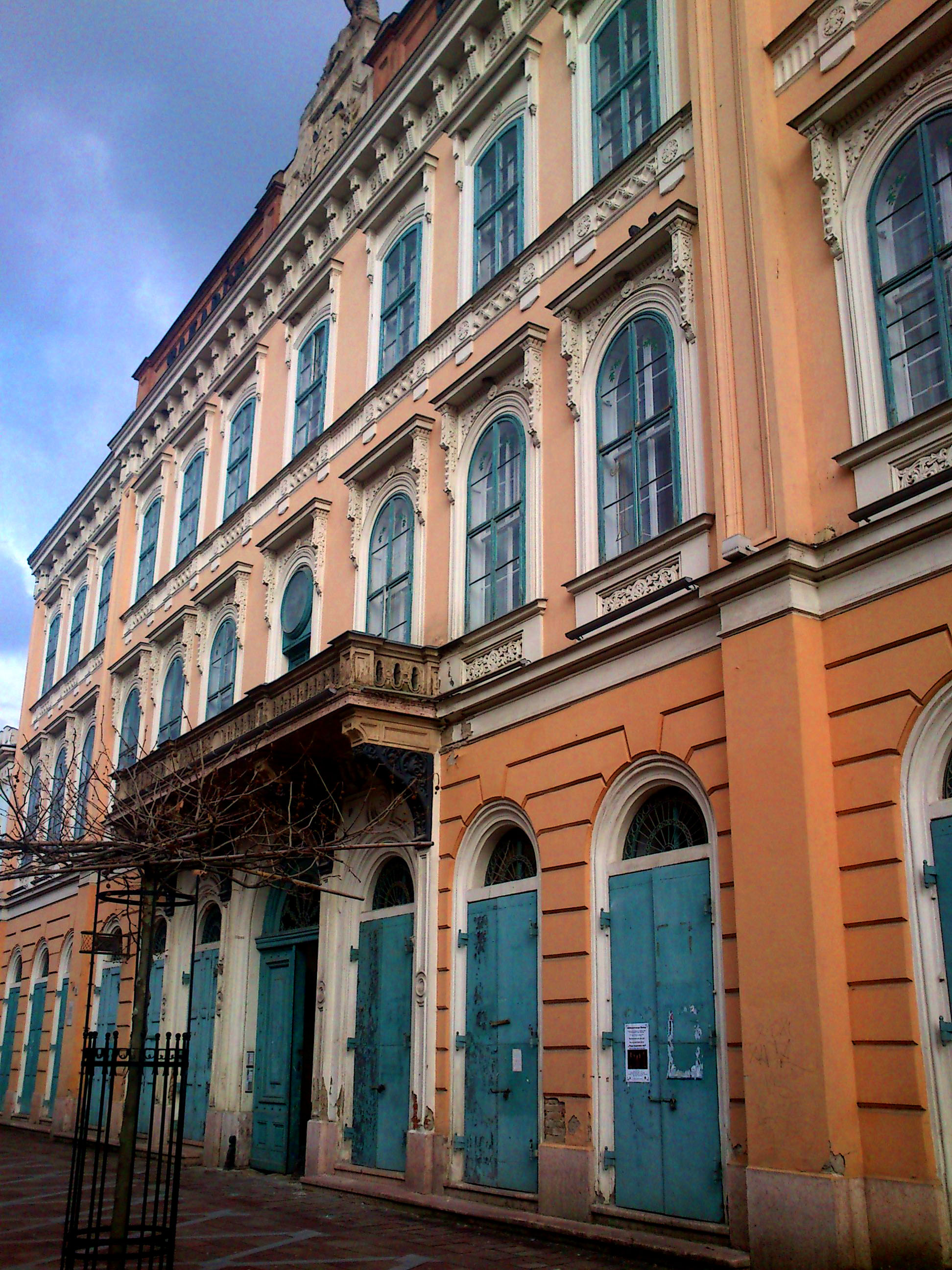 House (Esztergom, Széchenyi square 19.)